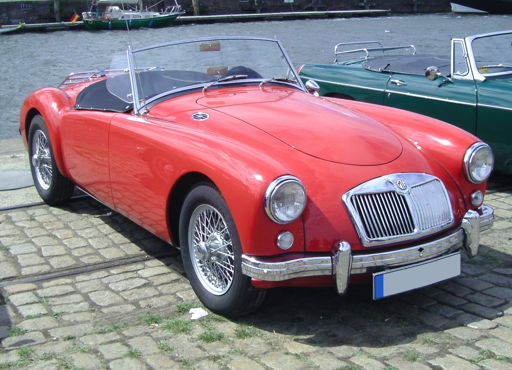 A MG MGA